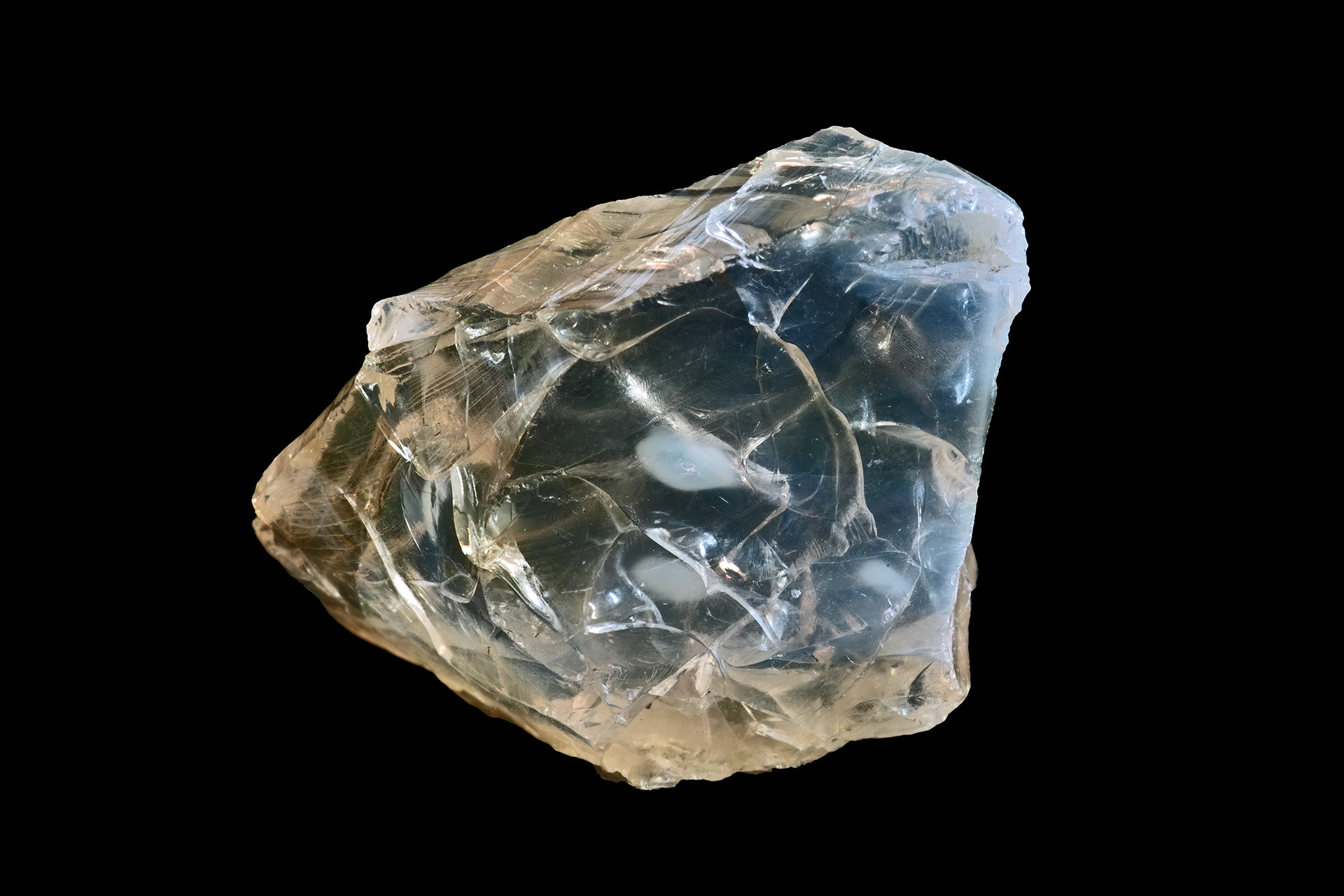 Hyalite, Dubnik near Presov, Slovakia (1990)